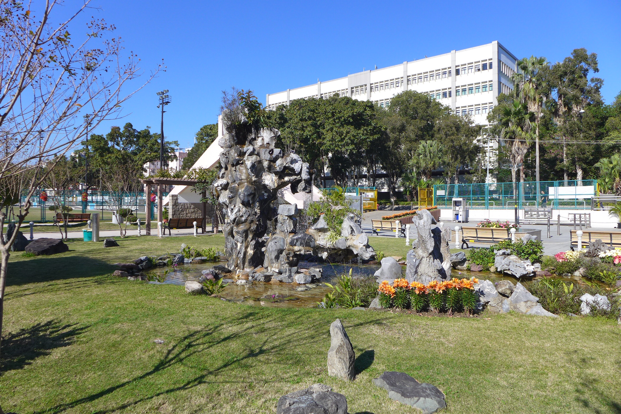 Fanling Recreation Ground